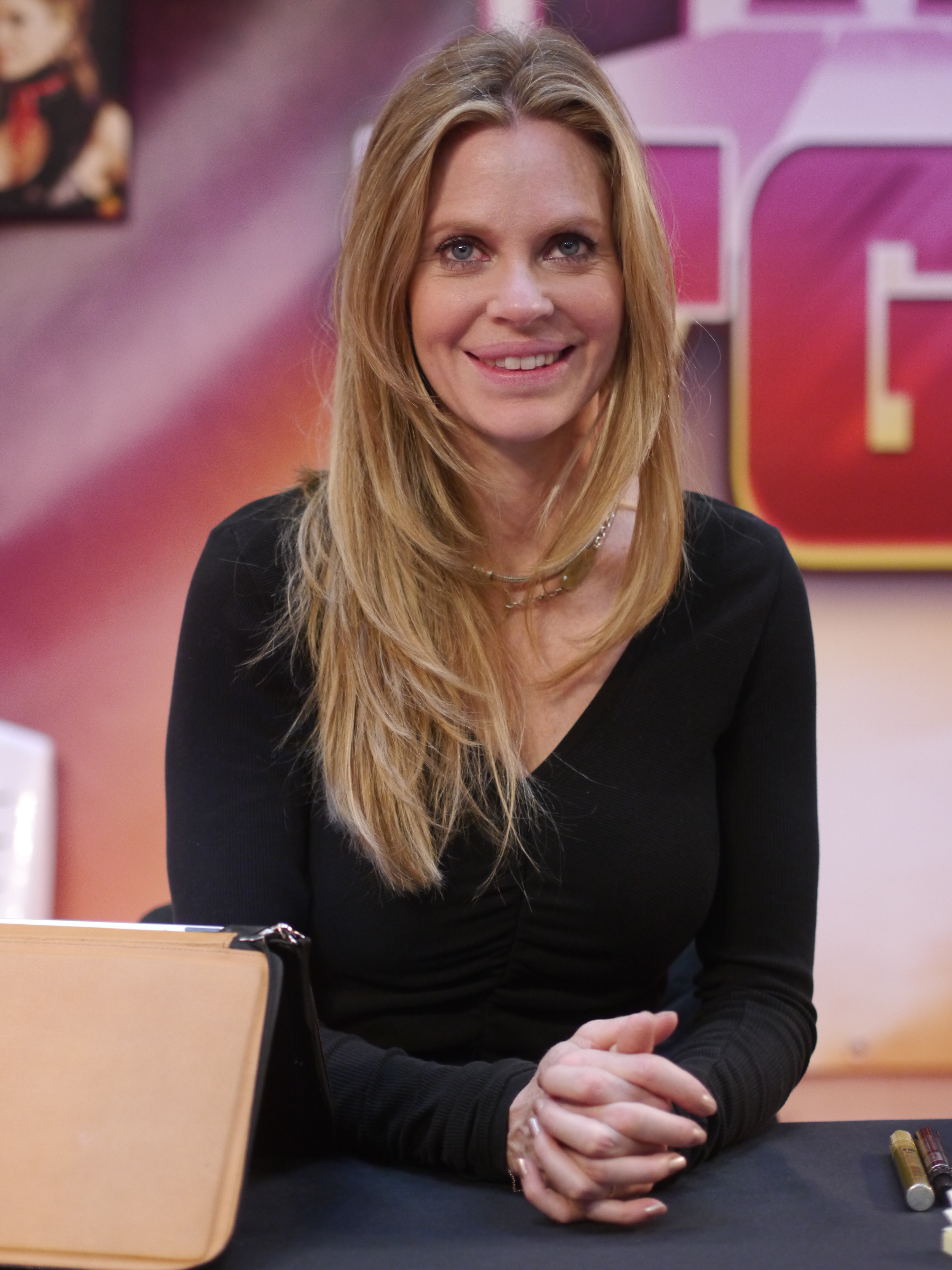 Toulouse Game Show Festival, 6th edition.